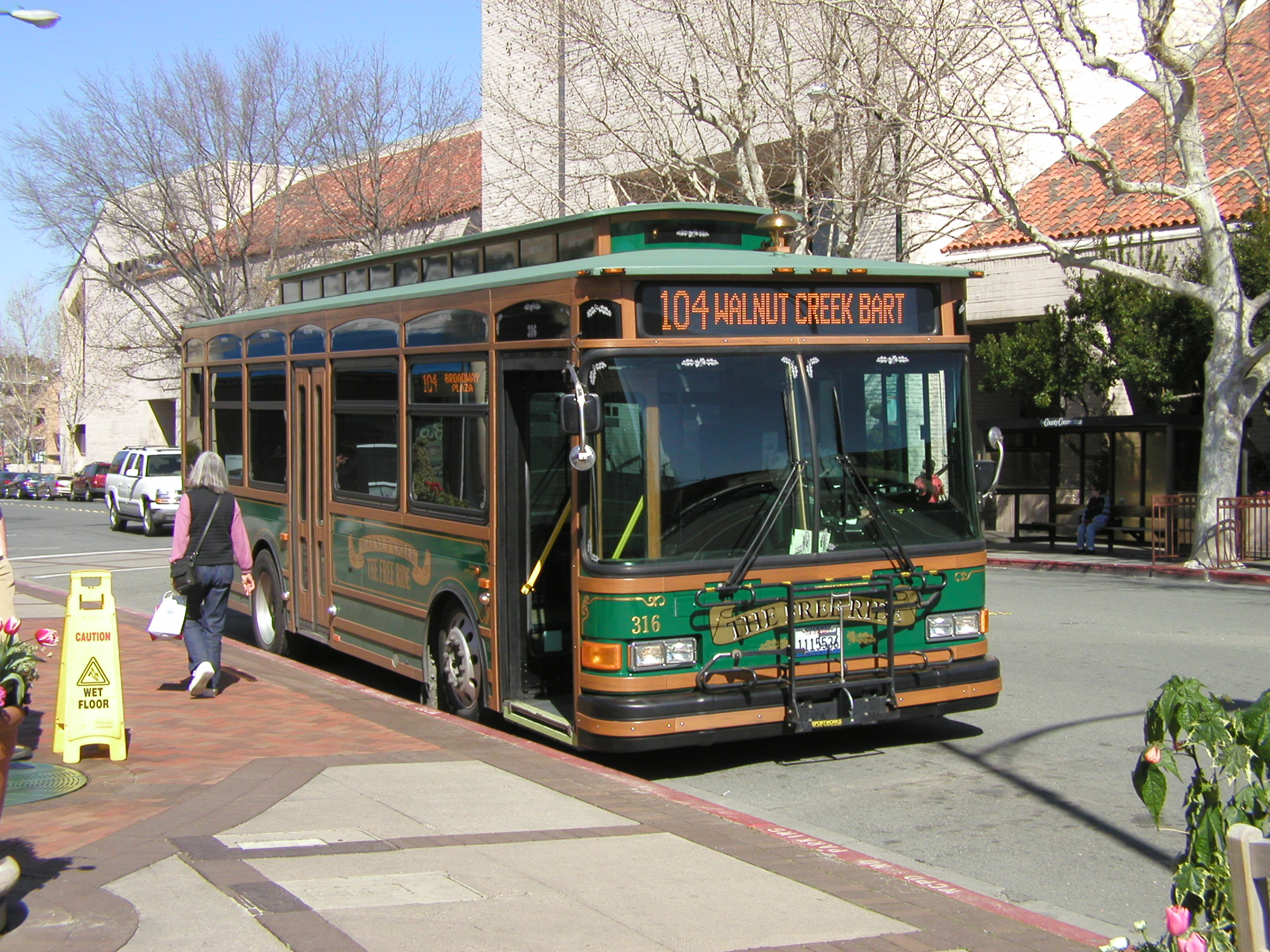 Central Contra Costa Transit Authority (CCCTA) 316 (a Gillig Trolley Bus Replica) at Broadway Plaza, in Walnut Creek, CA. Photo taken on February 22, 2006 by Andrew M. Smith.